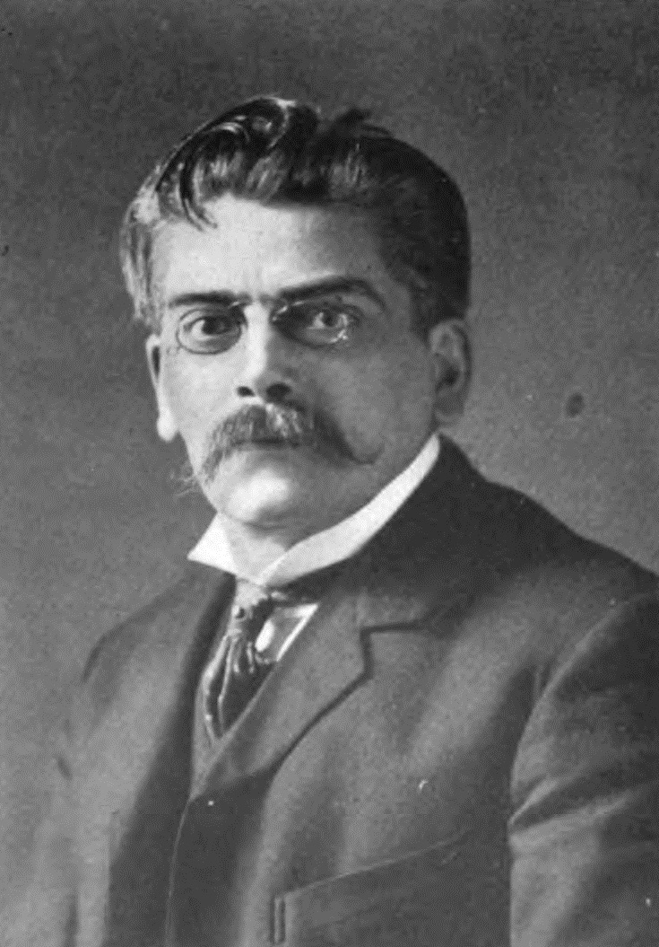 Emil Reich (1854–1910), American historian of Hungarian origin